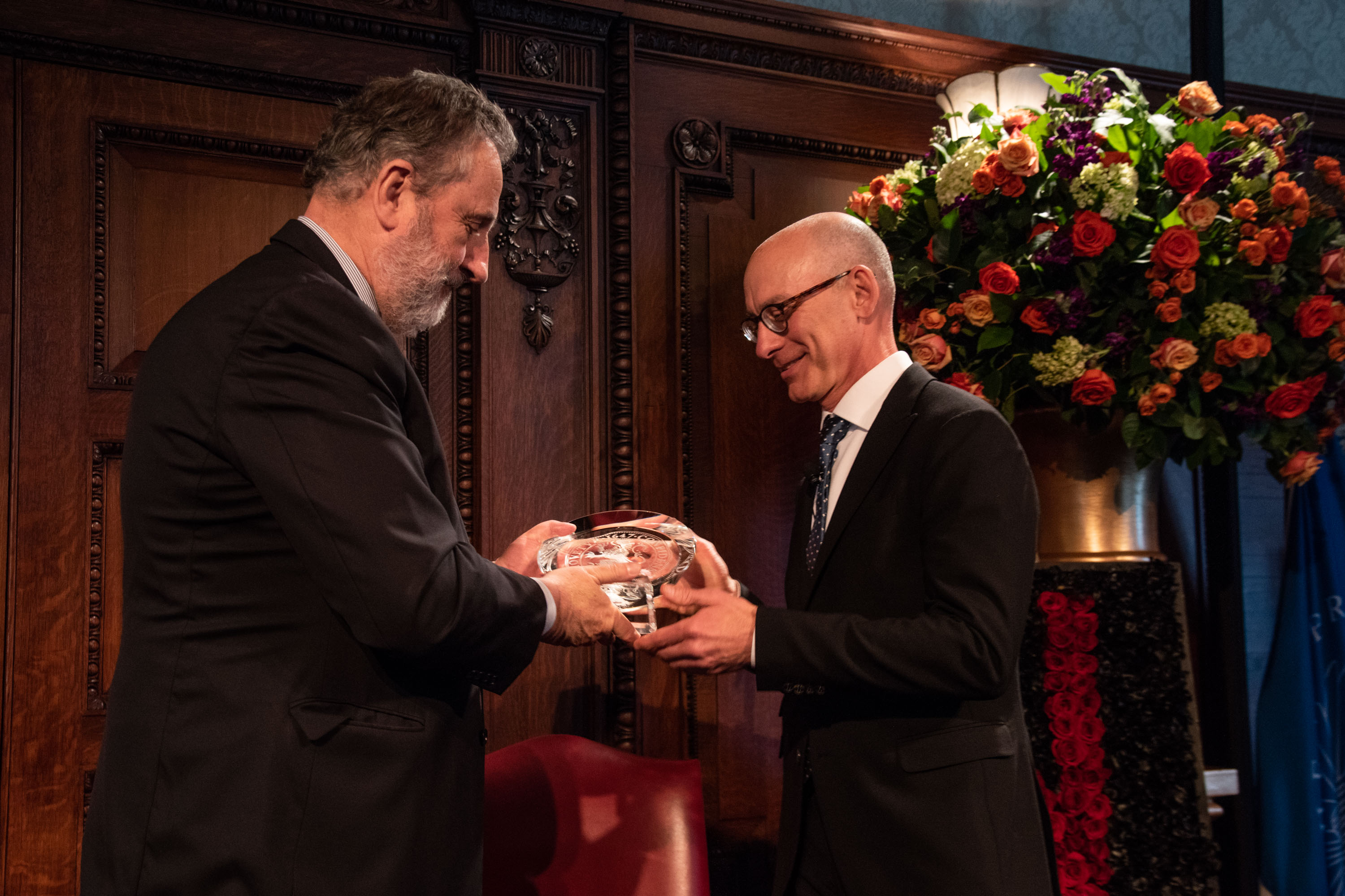 (c) Stephen Voss and Embassy of the Netherlands. The Holland on the Hill Heineken Award honors industry leaders who have made a substantial contribution to the US-Dutch economic relationship. This year's winner is Netflix. April 12, 2018.